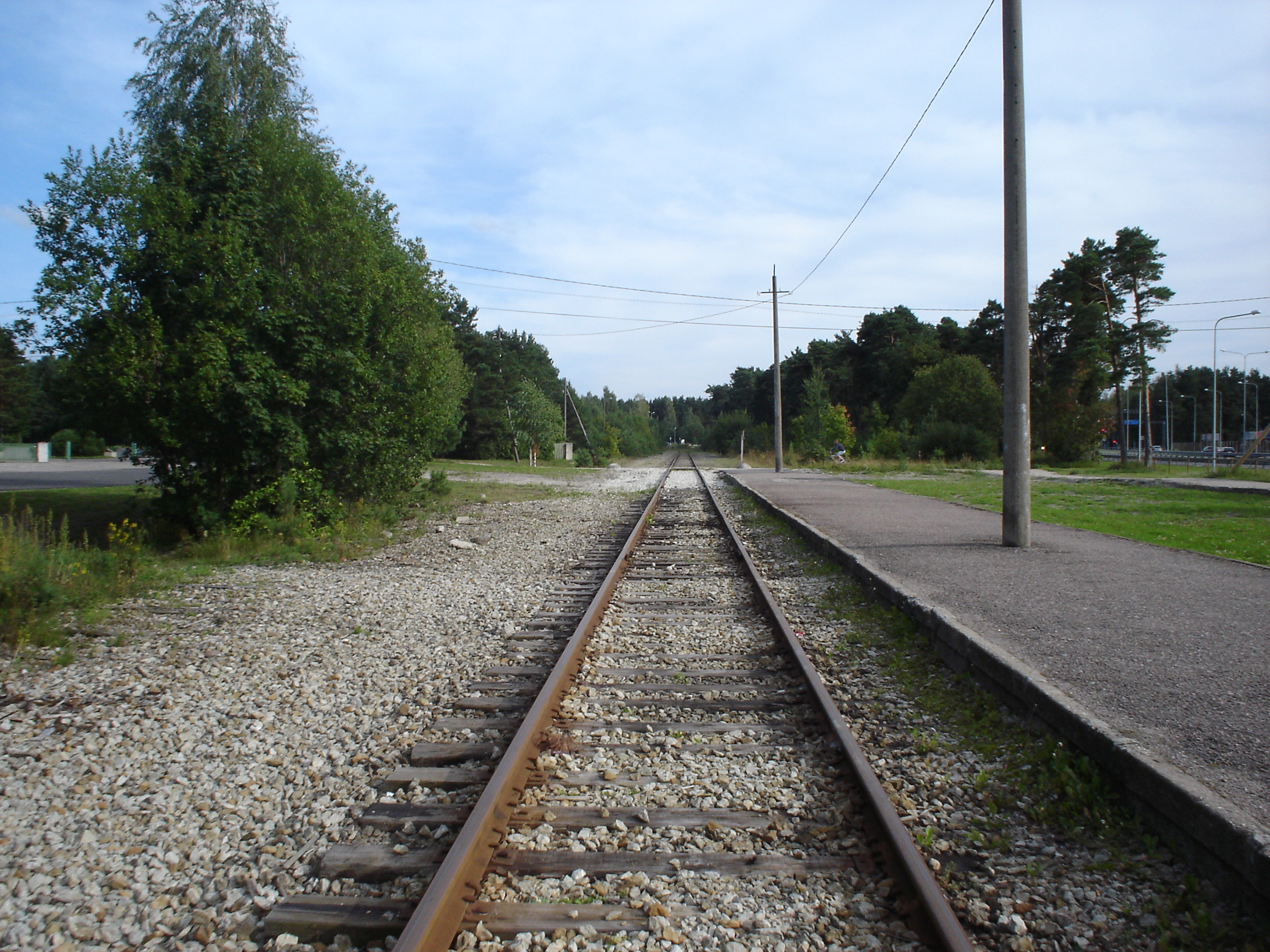 View towards demolished Mõisaküla railway line. Pärnu (Raeküla) railway station.